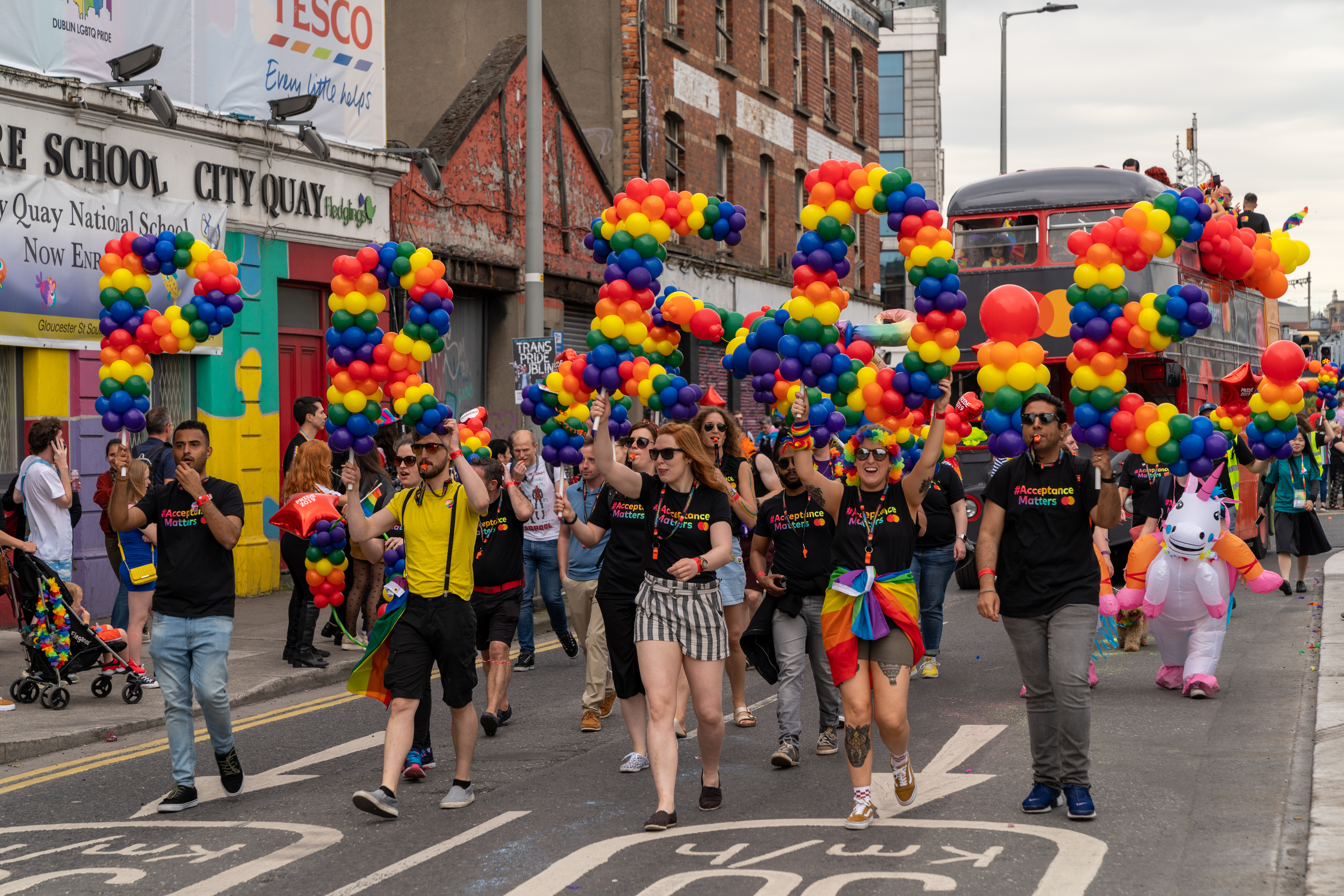 Right from the beginning I have photographed this annual event and I have always photographed in the backstage area before the parade actually set out. However, this year I could not gain access without media accreditation which caught me be surprise so I decided to go for lunch and then get the train to Greystones but on my way to the station I found a good location from which to photograph the parade so I took the opportunity. If you are not interest, I apologise in advance for the number of photographs that I have upload but I usually get a lot of requests form individuals seeking photographs of themselves so I do my best to include as many people as possible. June 28th marks the 50th anniversary of an uprising that changed the landscape of LGBTQ+ rights forever. Over six nights in 1969, members of the lesbian, gay, bisexual and transgender community resisted police oppression at the Stonewall Inn in New York City, igniting the modern fight for LGBTQ+ rights across the world.